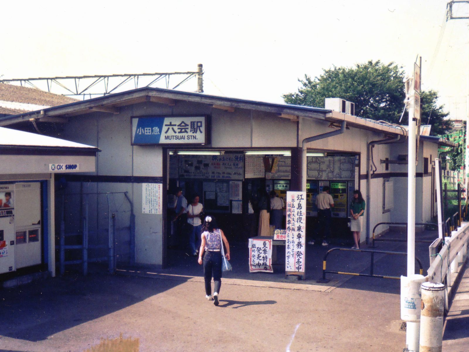 Odakyu Electric Railway, Mutsuai Station